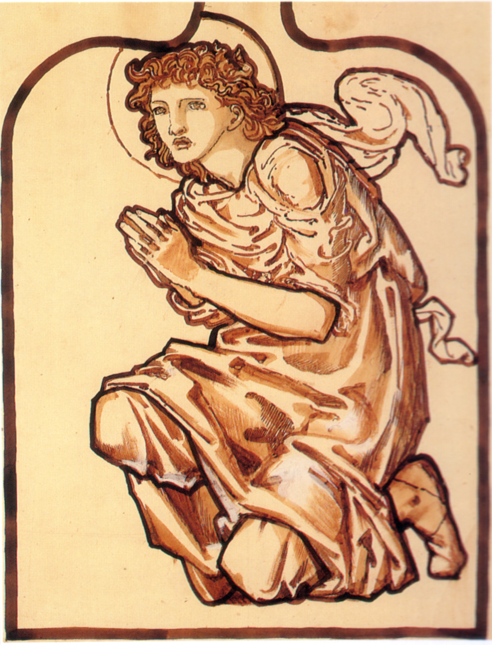 Daniel, caartoon for stained-glass window at St. Martins-on-the-Hill, Scarborough, brush and brown was with opaque white ovre traces of graphite on cream wove paper, 63.7 by 49.3 cm